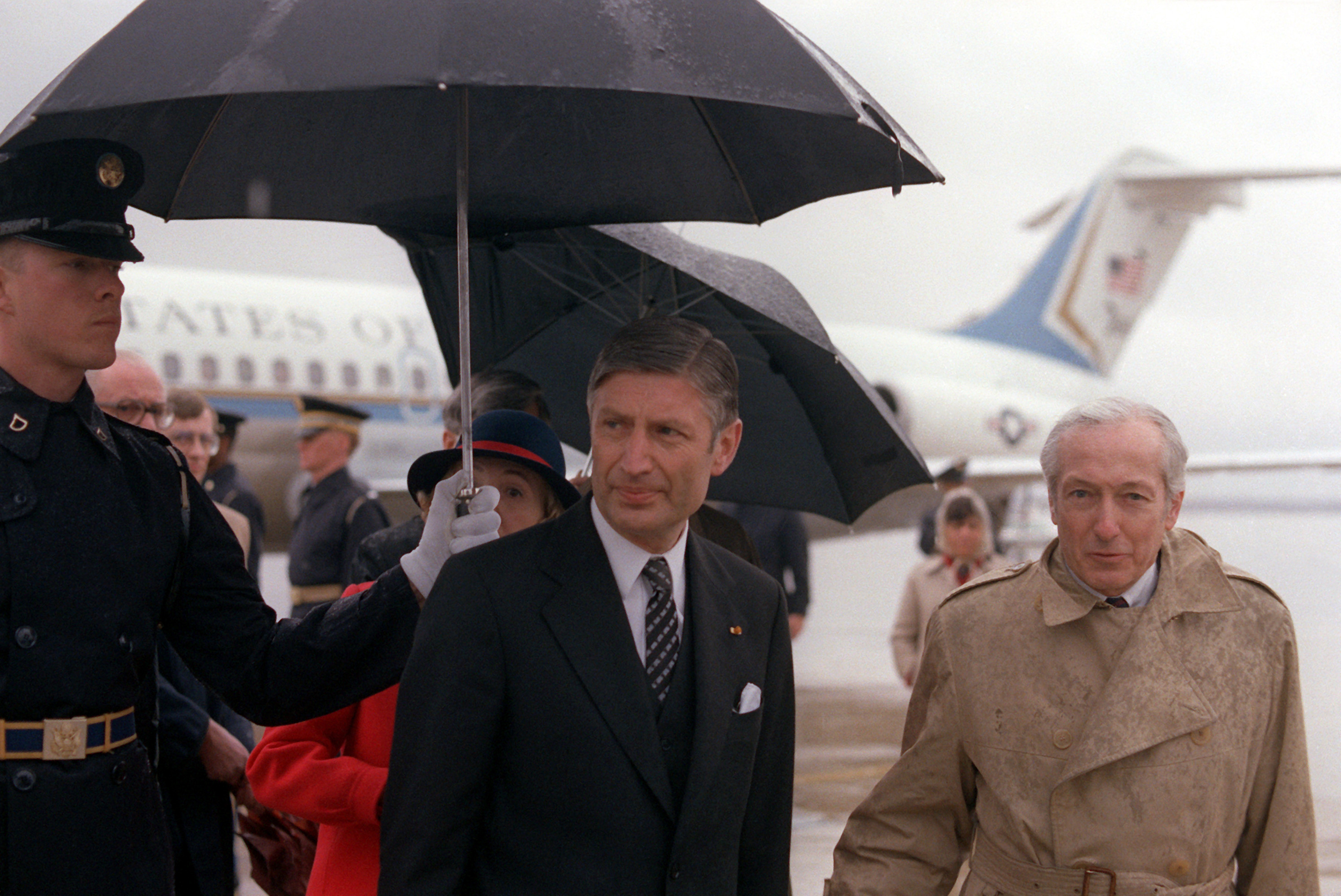 Netherlands Prime Minister Andries A.M. van Agt arrives at Andrews Air Force Base for a visit to Washington D.C.